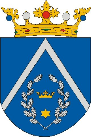 Coat of arms of Sajószöged, Hungary